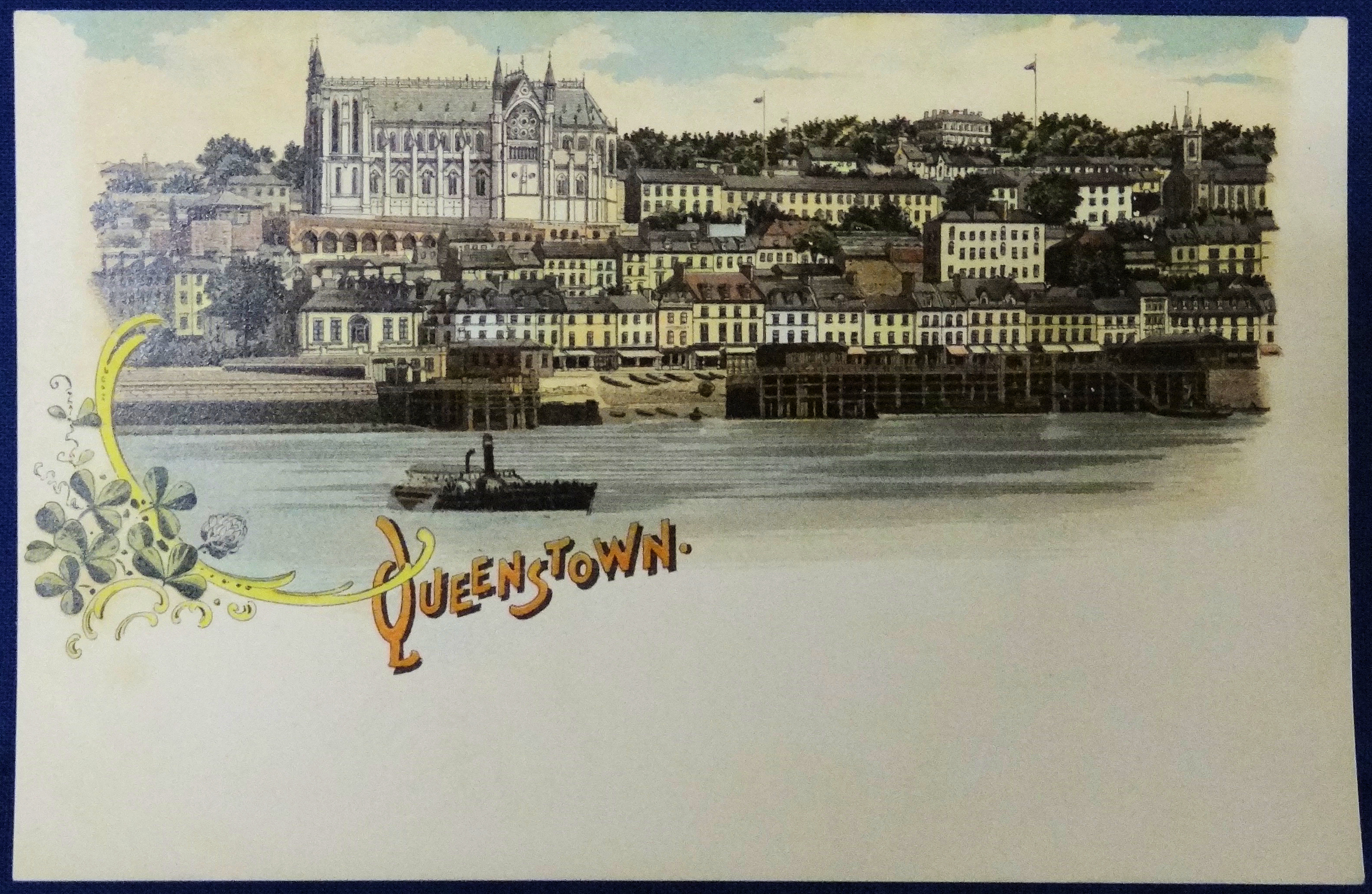 An old postcard showing the waterfront of Cobh, or Queenstown as it was known as between 1850 and 1922. The construction of Cobh Cathedral began in 1867, so this postcard is from sometime between 1867 and when the spire of the cathedral was erected.